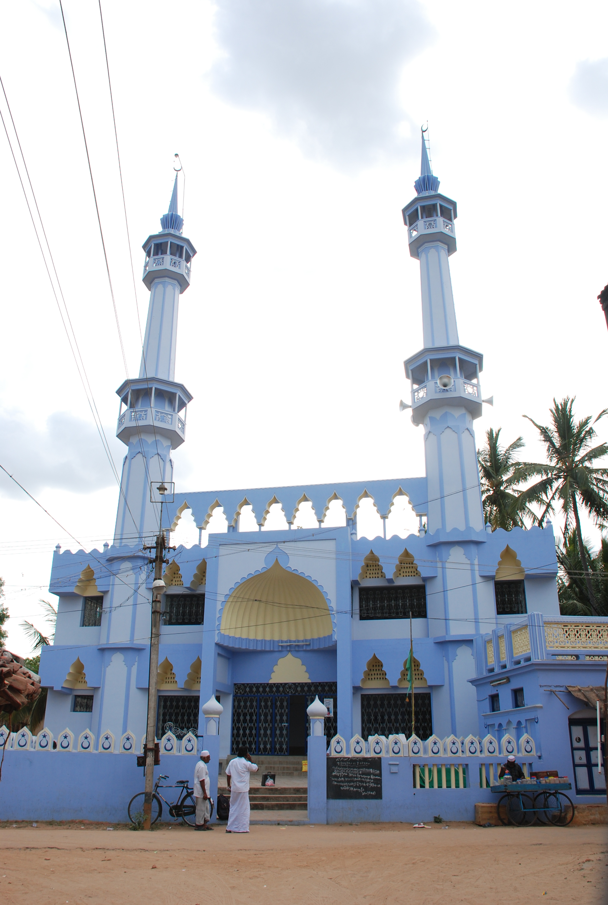 Picture of the Muhyuddin Masjid (Muhyuddin Andavar Pallivasal) in the village of Thiruppanandal, Thanjavur District, Tamilnadu State, INDIA.